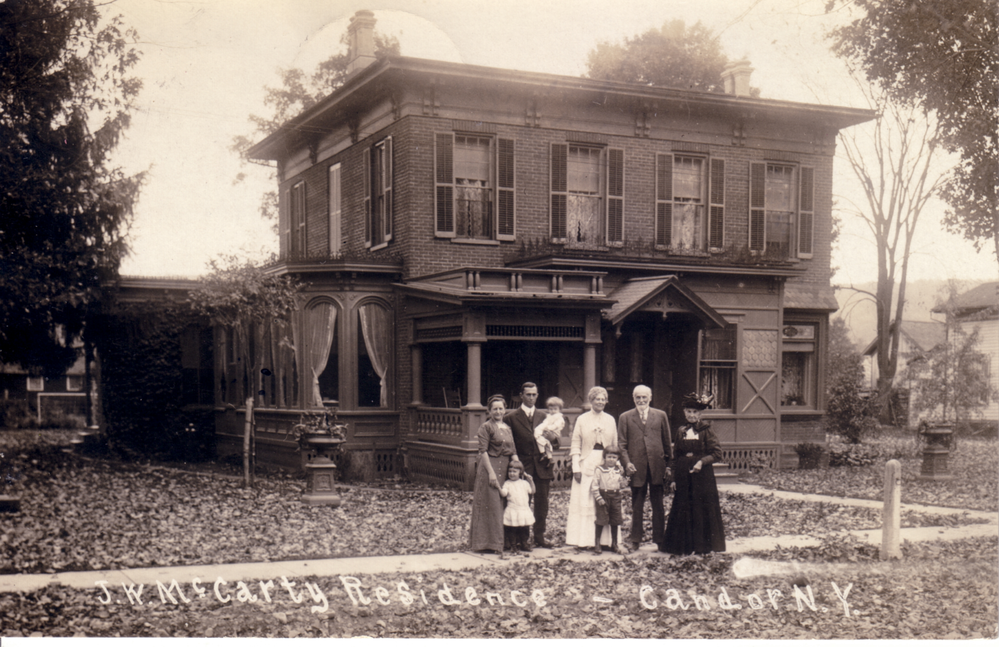 J W McCarty family and home on Main Street in the Village of Candor, New York circa 1910